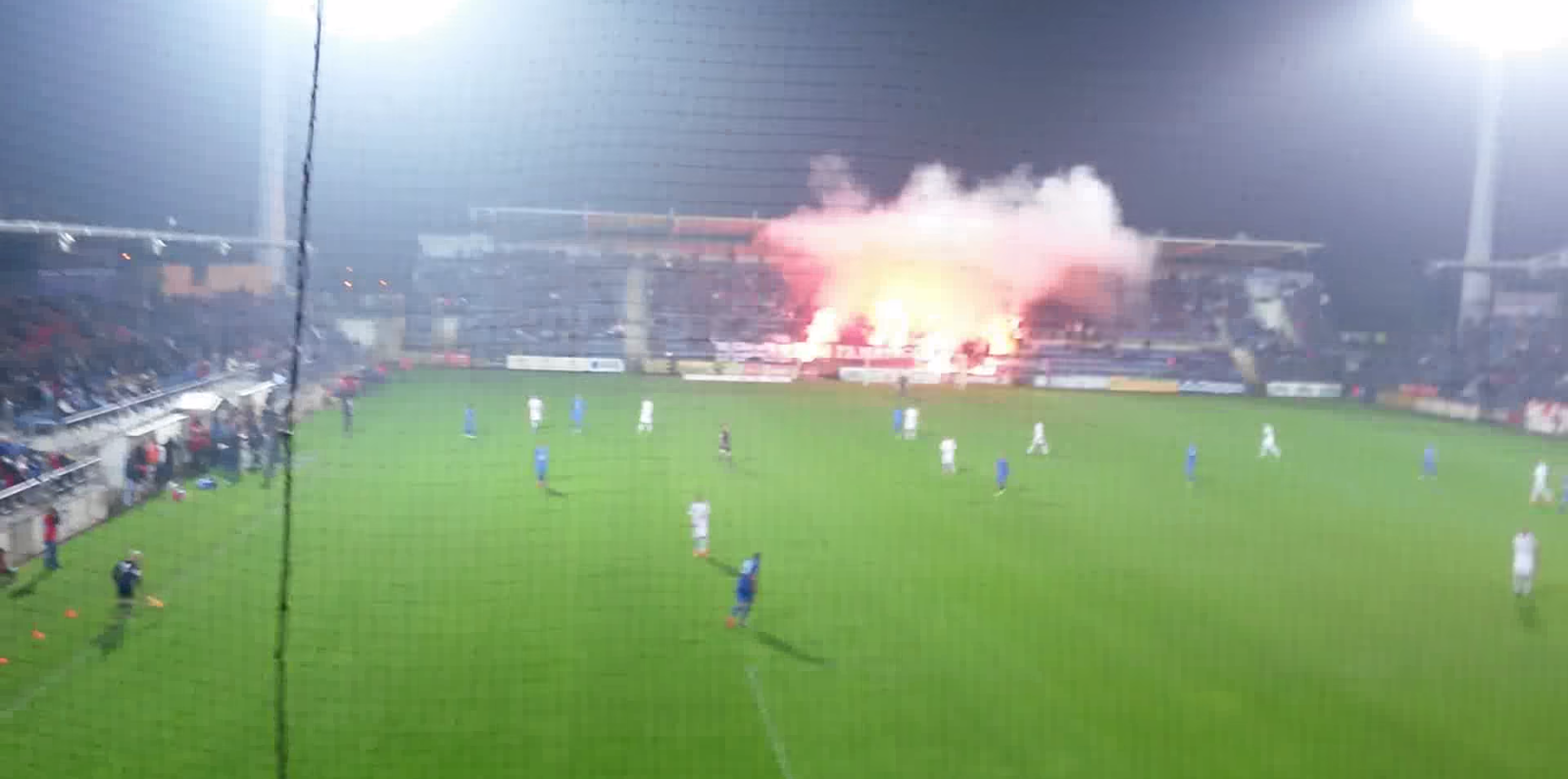 Stadion Miroslava Valenty